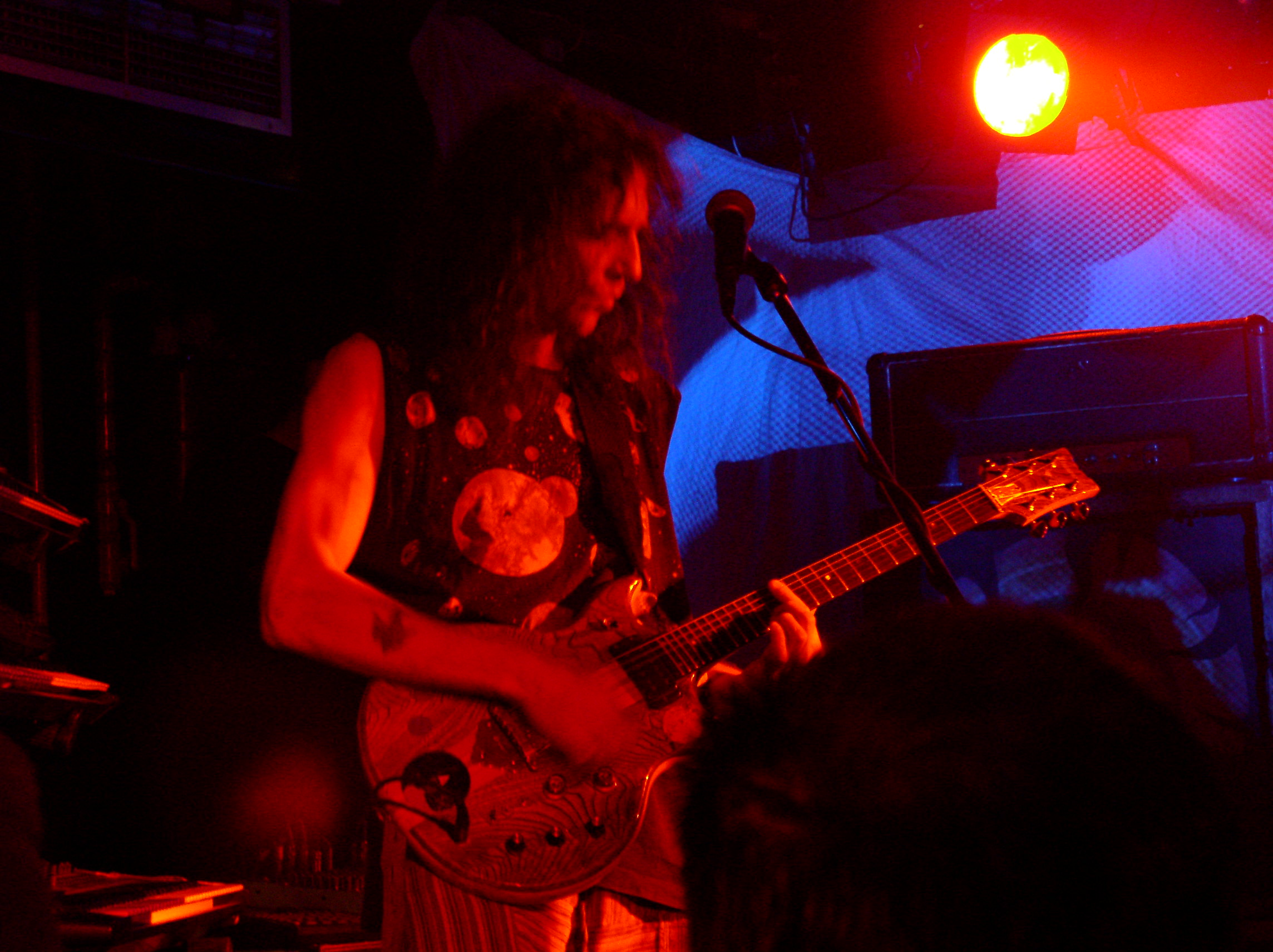 Ed Wynne (Ozric Tentacles) in Zagreb